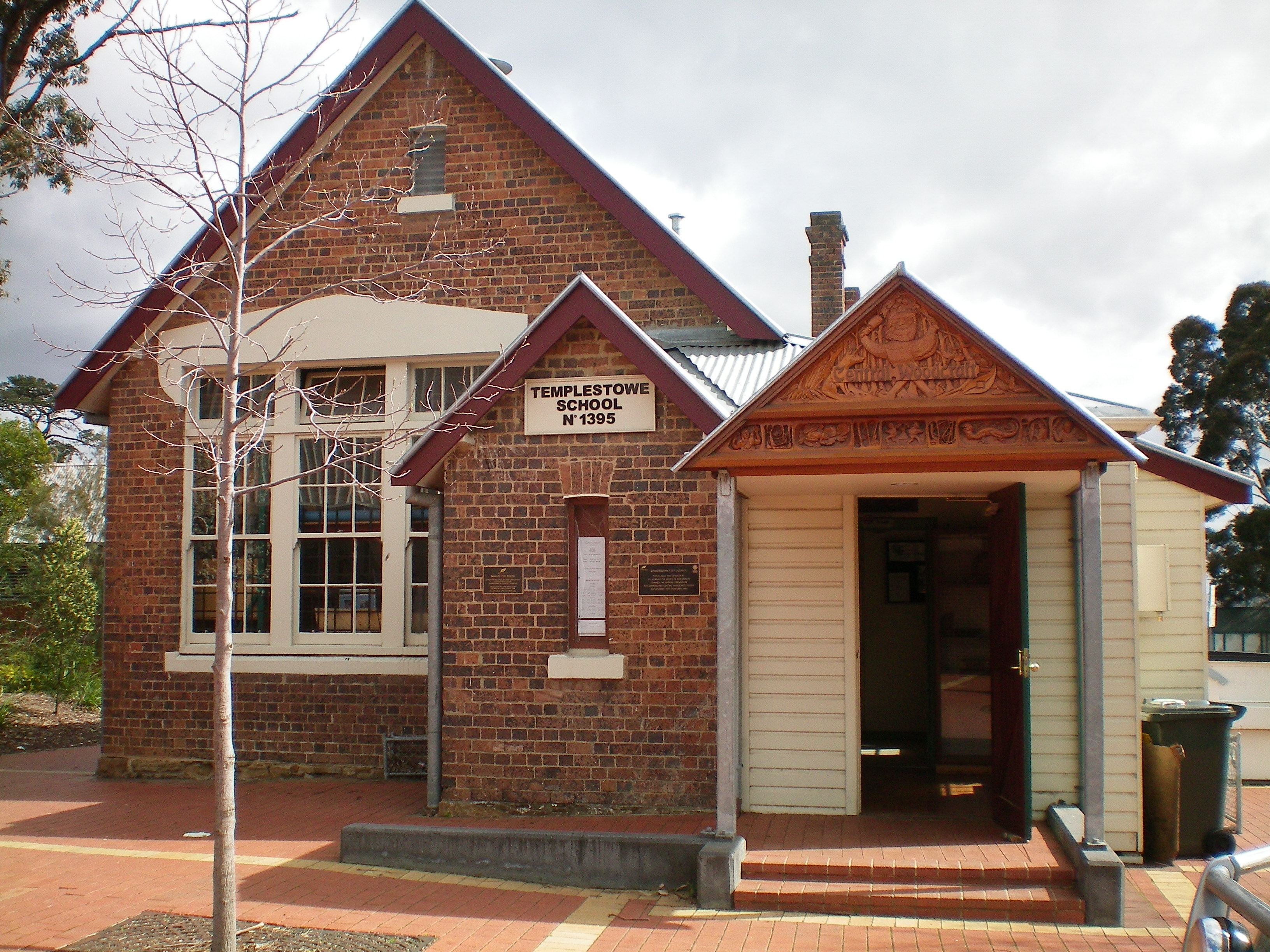 Common school number 1395, Templestowe.